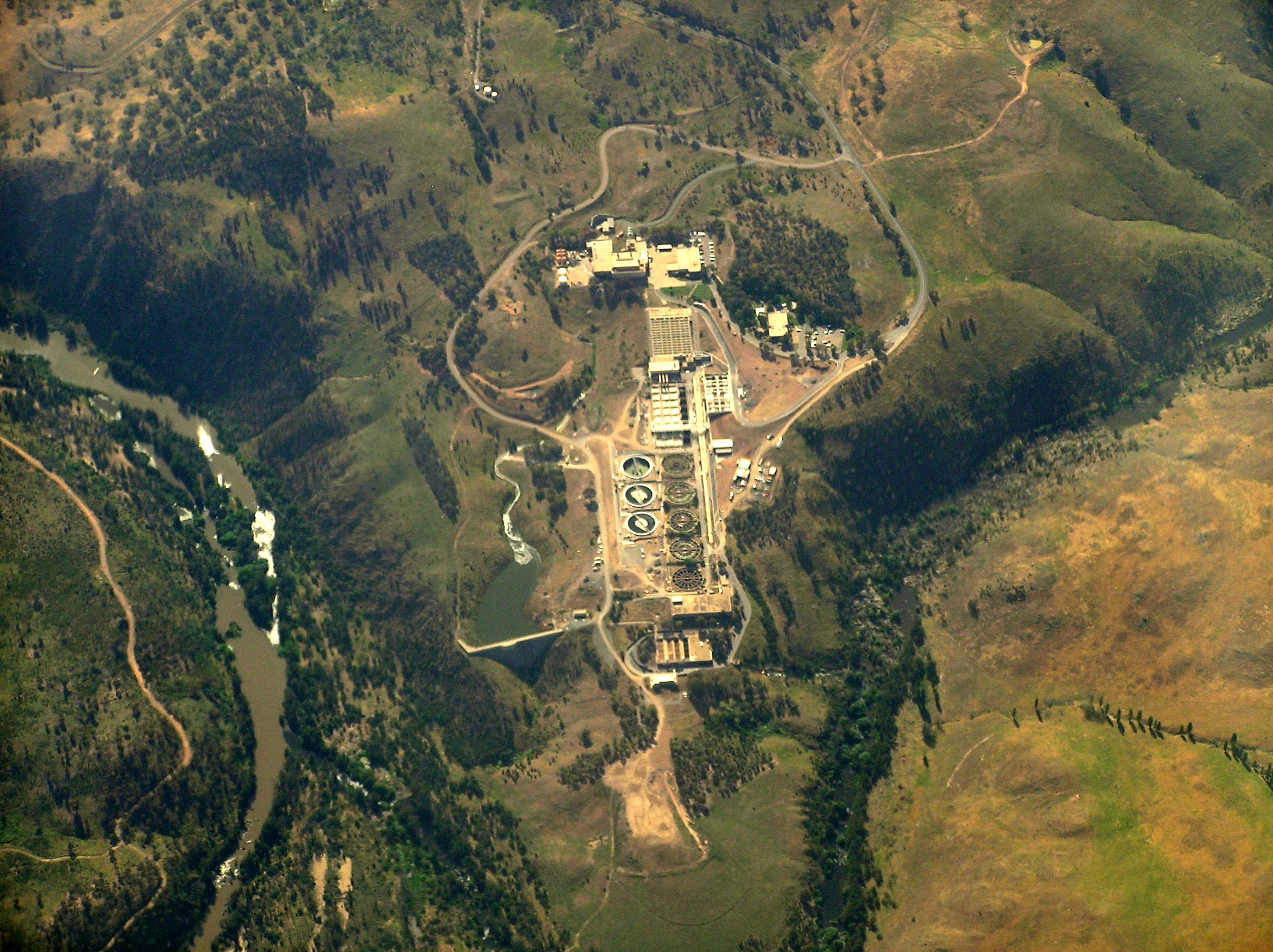 Canberra Sewage treatment works on the Murrumbidgee River and Molonglo River. Aerial view from west